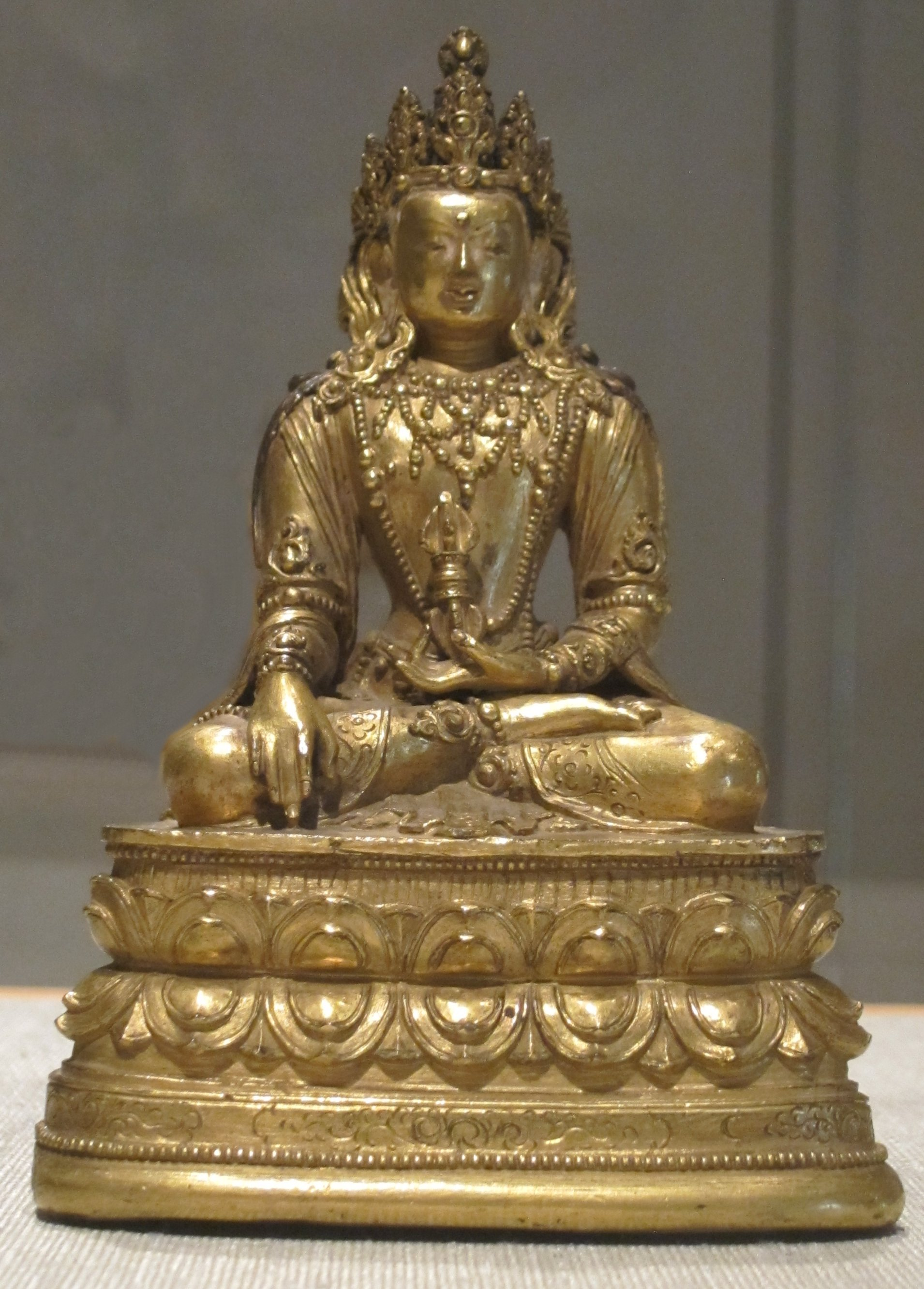 Akshobhya statue from Tibet, 18th-19th century, gilt bronze, Honolulu Museum of Art accession 10888.1